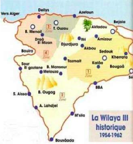 Historical Wilaya III Algerian War